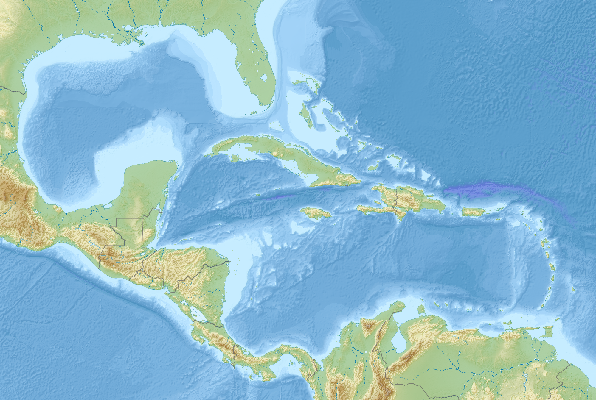 Map of Middle America, including the Gulf of Mexico and the Caribbean Sea, with the addition of national borders. Equirectangular projection. Strechted by 106.0%. Geographic limits of the map: N: 32.0° N S: 6.0° N W: 99.0° W E: 58.0° W Relief: ETOPO1. Coastline, borders, rivers etc: Made with Natural Earth. Free vector and raster map data @ .